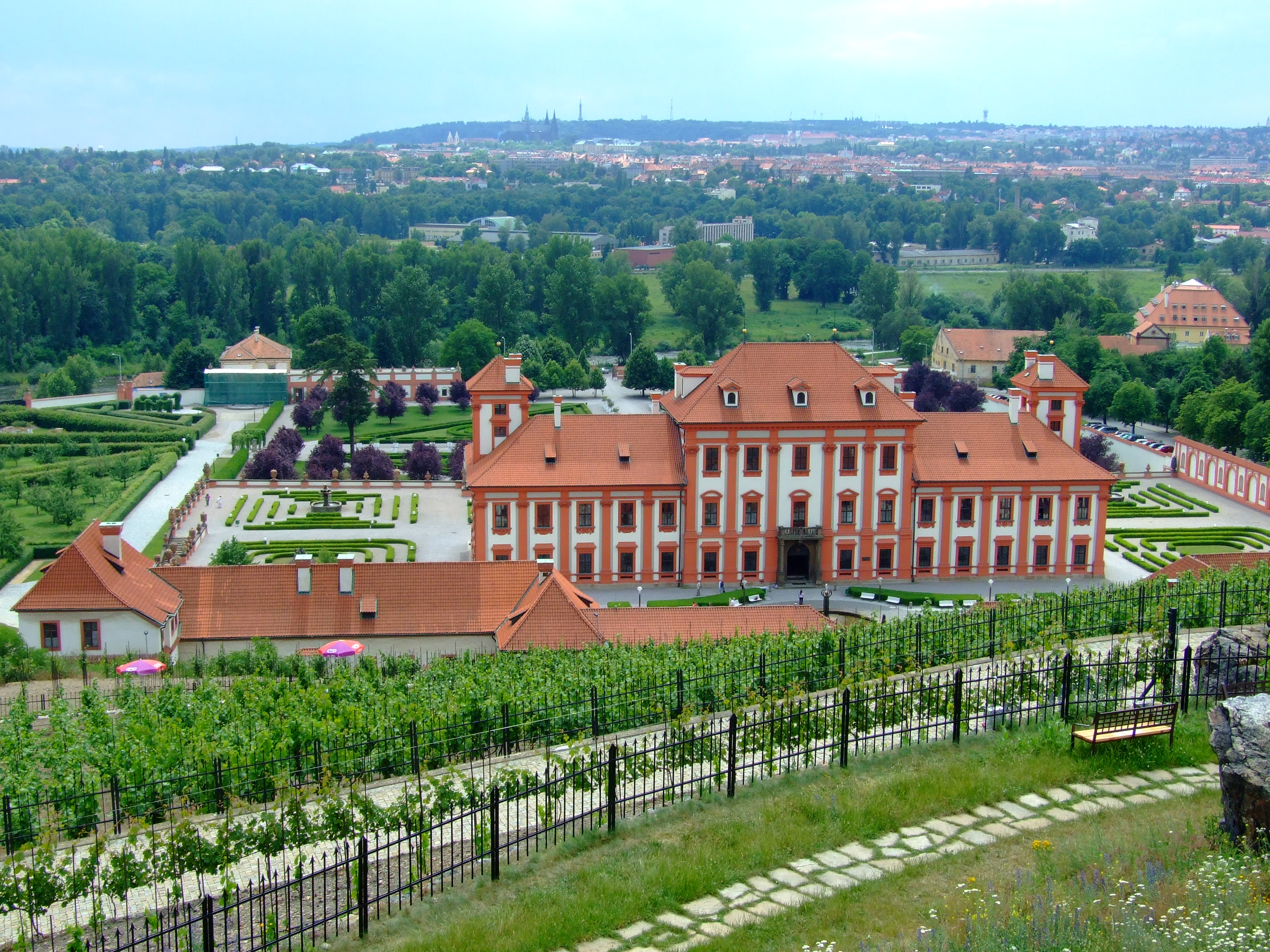 Lookout from st. Claire chapel, Troja castle can be seen in the foreground, Stromovka park in the distance and Prague castle with Petřín in the very far distance